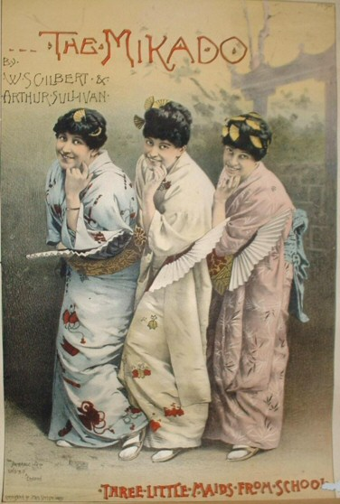 The Mikado by Gilbert & Sullivan Lithograph depicts Kate Forster (left), Geraldine Ulmar (center), and Geraldine St. Maur (right) as the three little maids, respectively Pitti-Sing, Yum-Yum, and Peep-Bo.